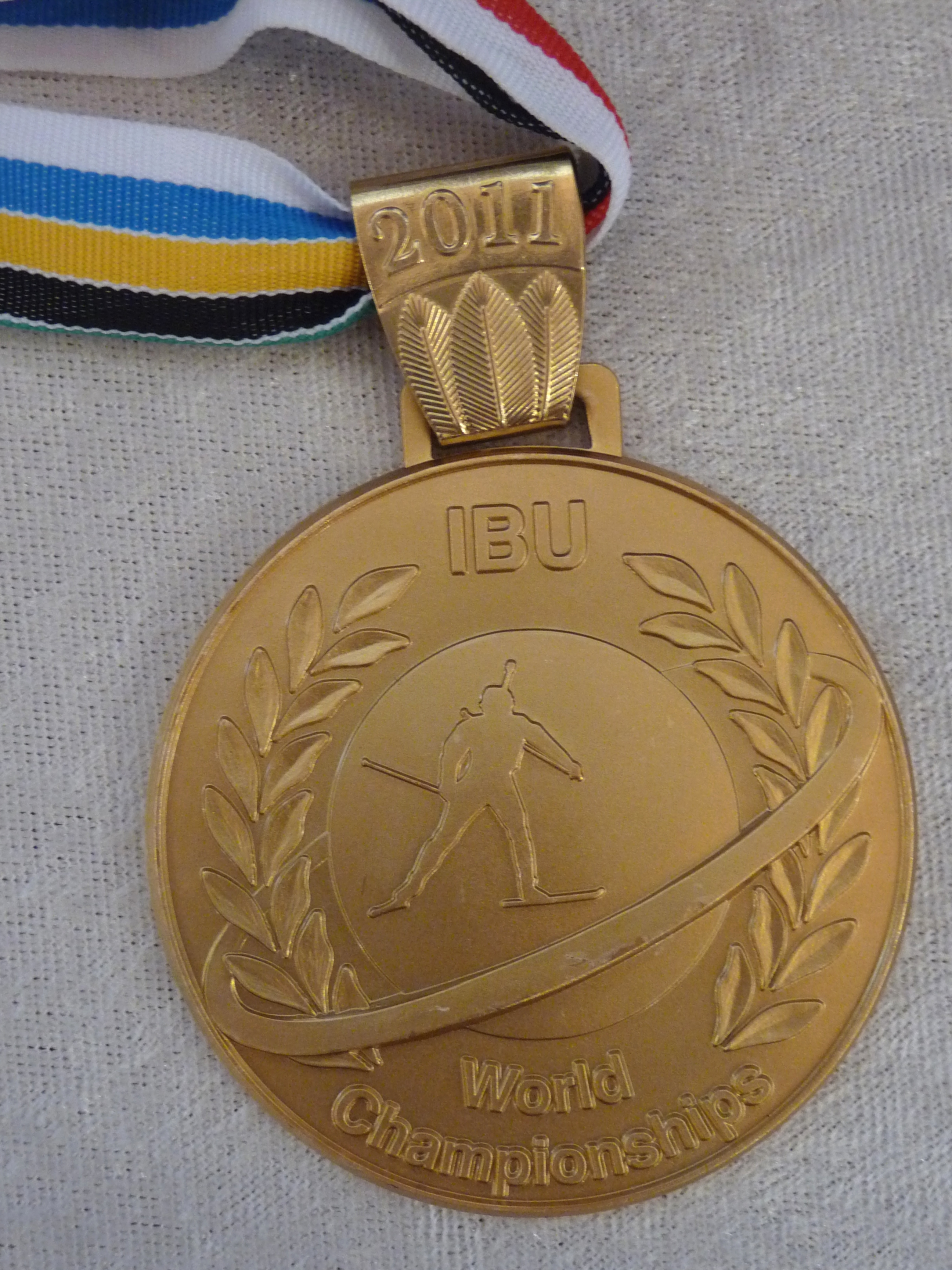 Gold medal of biathlete Magdalena Neuner in the sprint at the 2011 World Championships at Khanty-Mansiysk (Russia), temporarily for display at town hall, Wallgau, Germany